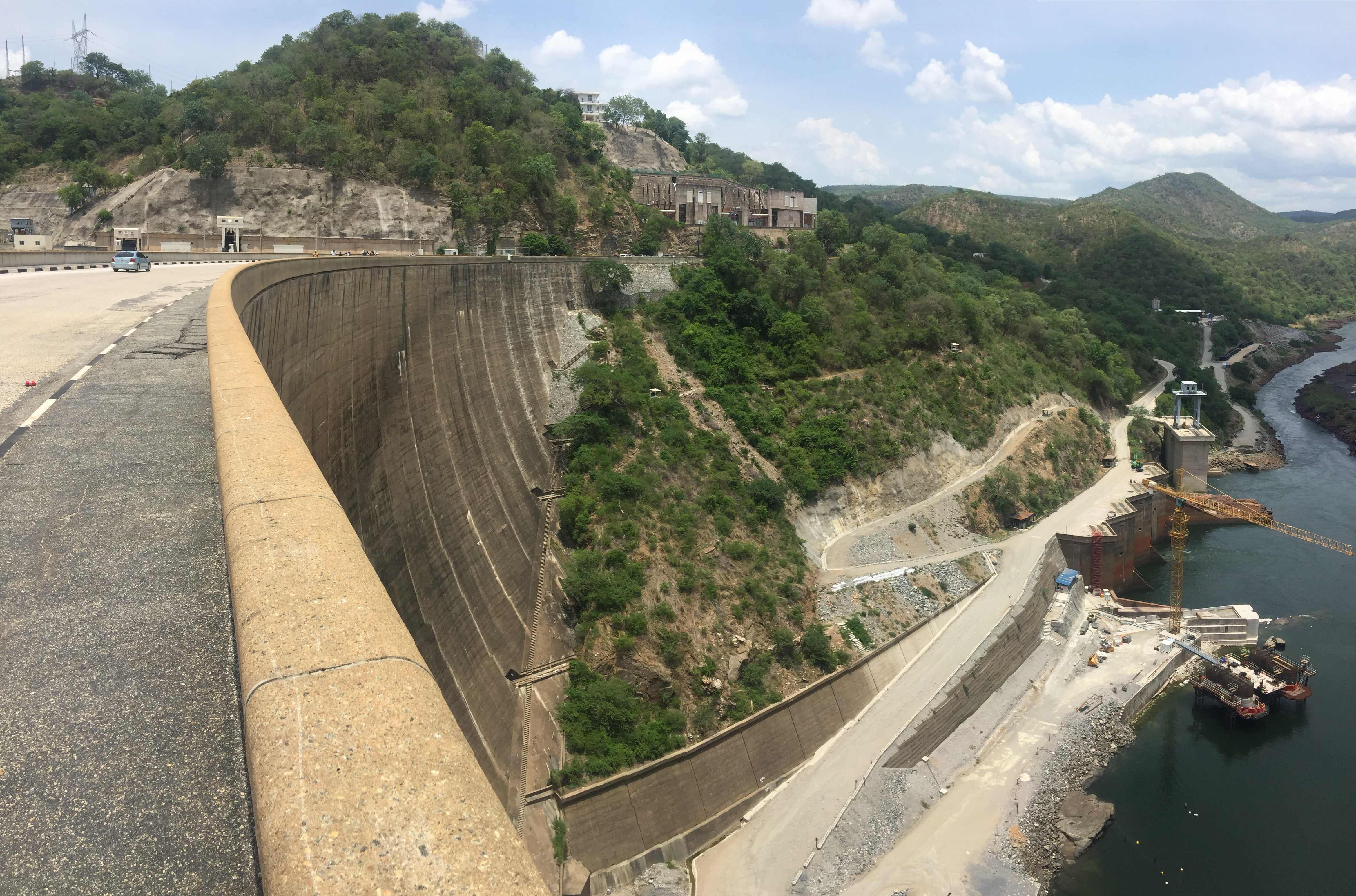 This is an image with the theme "Africa on the Move or Transport" from: Zimbabwe